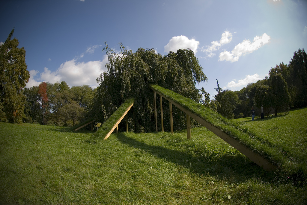 Earth Art by Nils Udo.